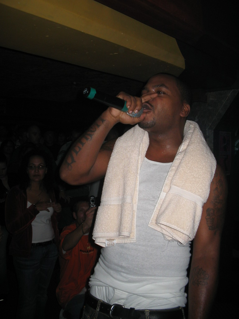 Picture of Obie Trice taken at his concert in Victoria, BC in 2006.